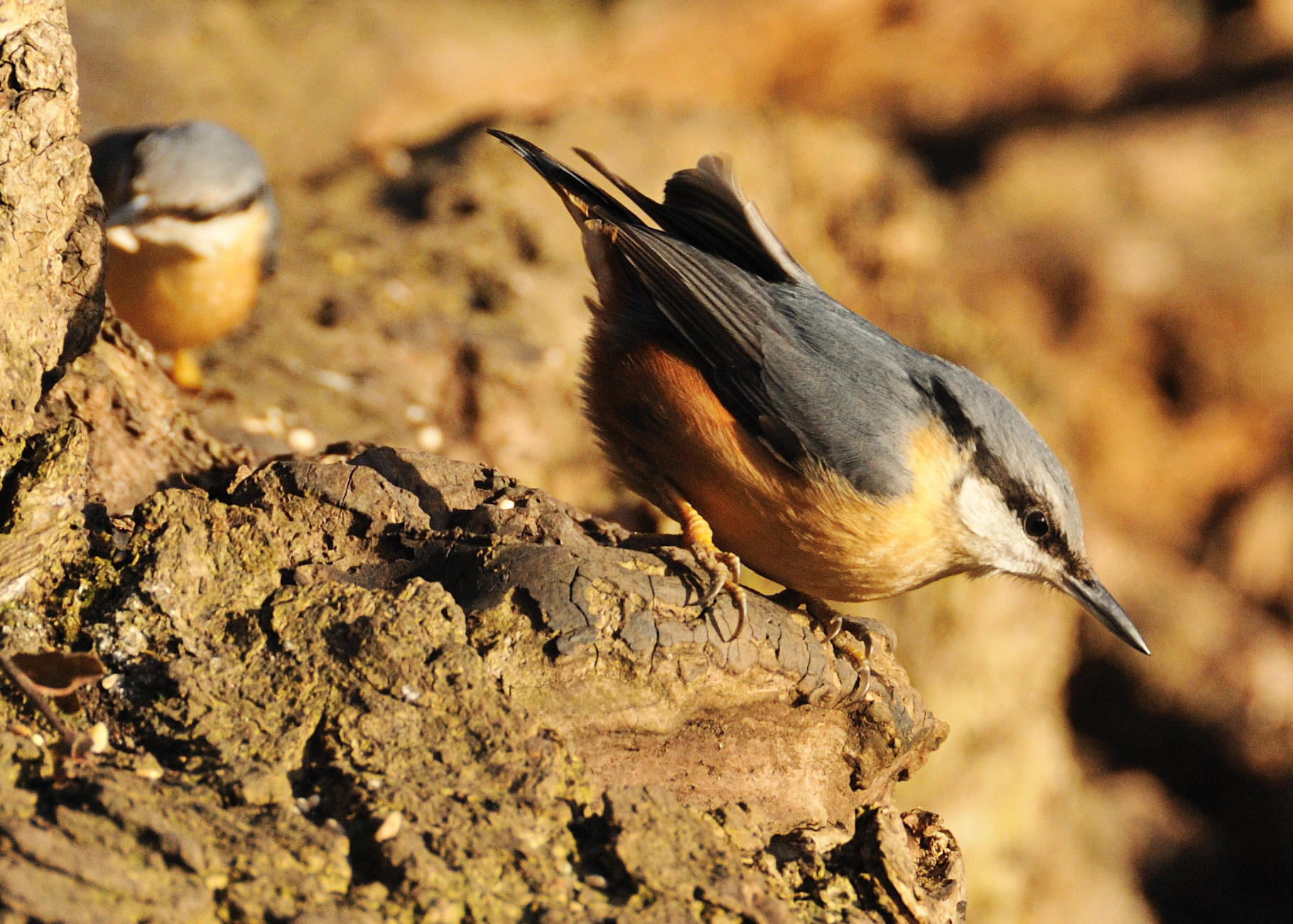 Sitta europaea, England.